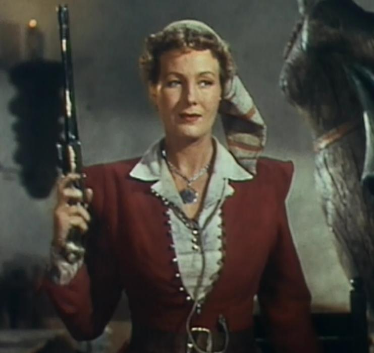 Binne Barnes in the film The Spanish Main (1945) - trailer (cropped screenshot)